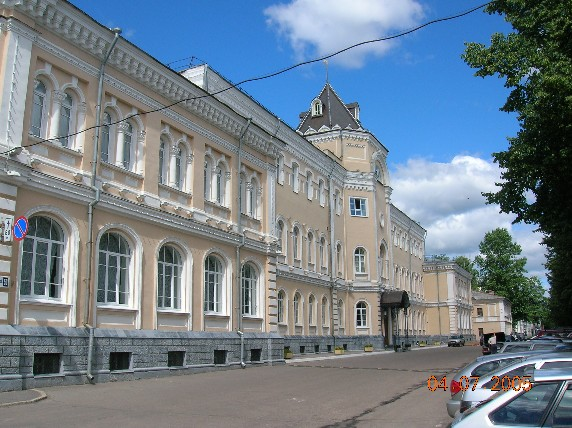 Headquarters of Russia's Northern Railway in Yaroslavl